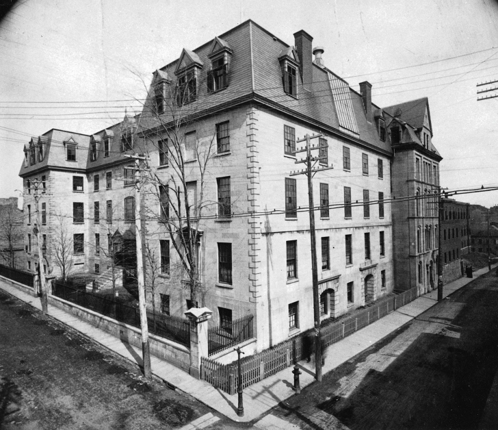 Photograph, Montreal General Hospital, Dorchester Street, QC, about 1890, Wm. Notman & Son. Silver salts on paper mounted on paper - Albumen process, 15 x 17 cm